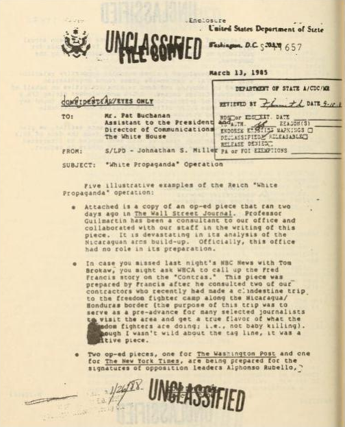 Memo from S/LPD Jonathan S. Miller to Pat Buchanan SUBJECT: "White Propaganda" Operation From: Report of the congressional committees investigating the Iran-Contra Affair with supplemental, minority, and additional views. Published 1987 by U.S. House of Representatives Select Committee to Investigate Covert Arms Transactions with Iran, U.S. Senate Select Committee on Secret Military Assistance to Iran and the Nicaraguan Opposition, For sale by the Supt. of Docs., U.S. G.P.O. in Washington . page 44